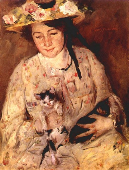 Young woman with cats (Portrait of Charlotte Berend-Corinth)